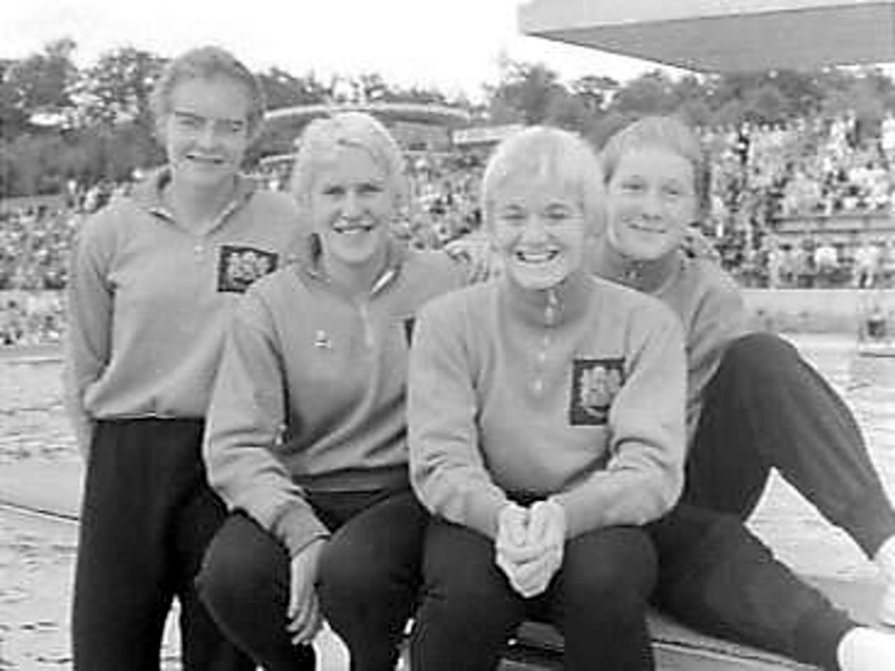 Left-right:Cocky Gastelaars, Judith de Nijs, Sieta Posthumus, Astrid Ording